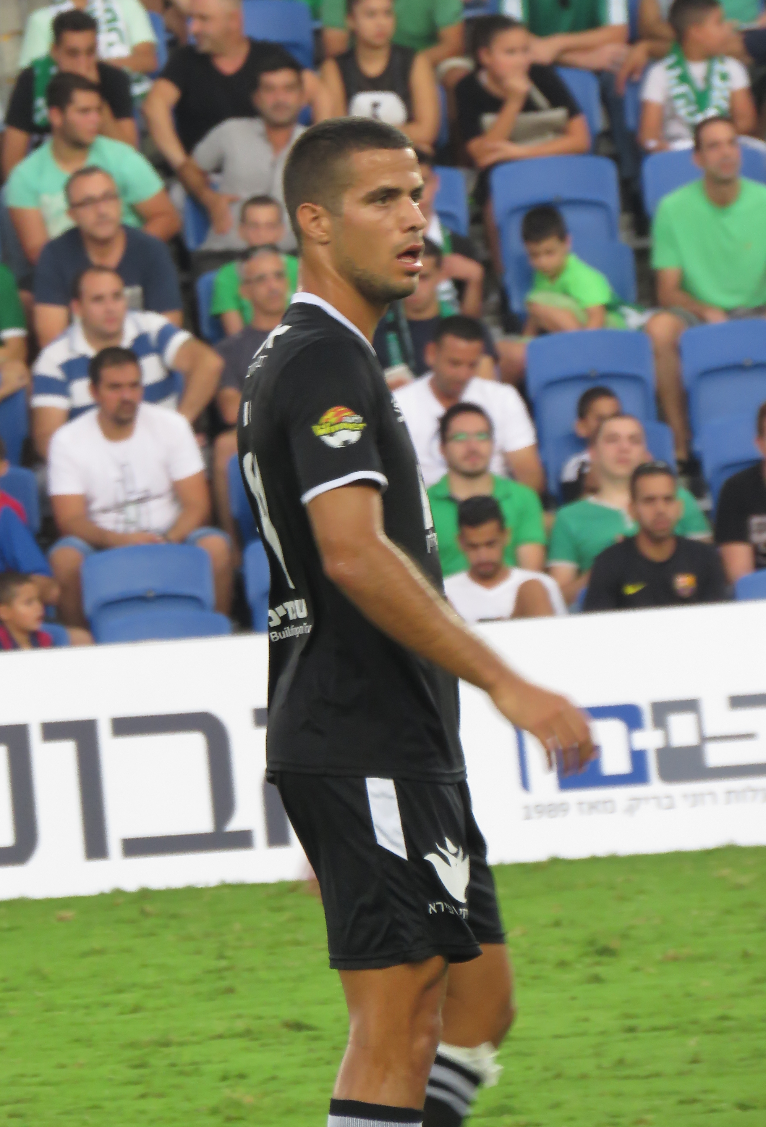 Hapoel Ra'anana vs. Maccabi Haifa F.C., 3 October, 2015